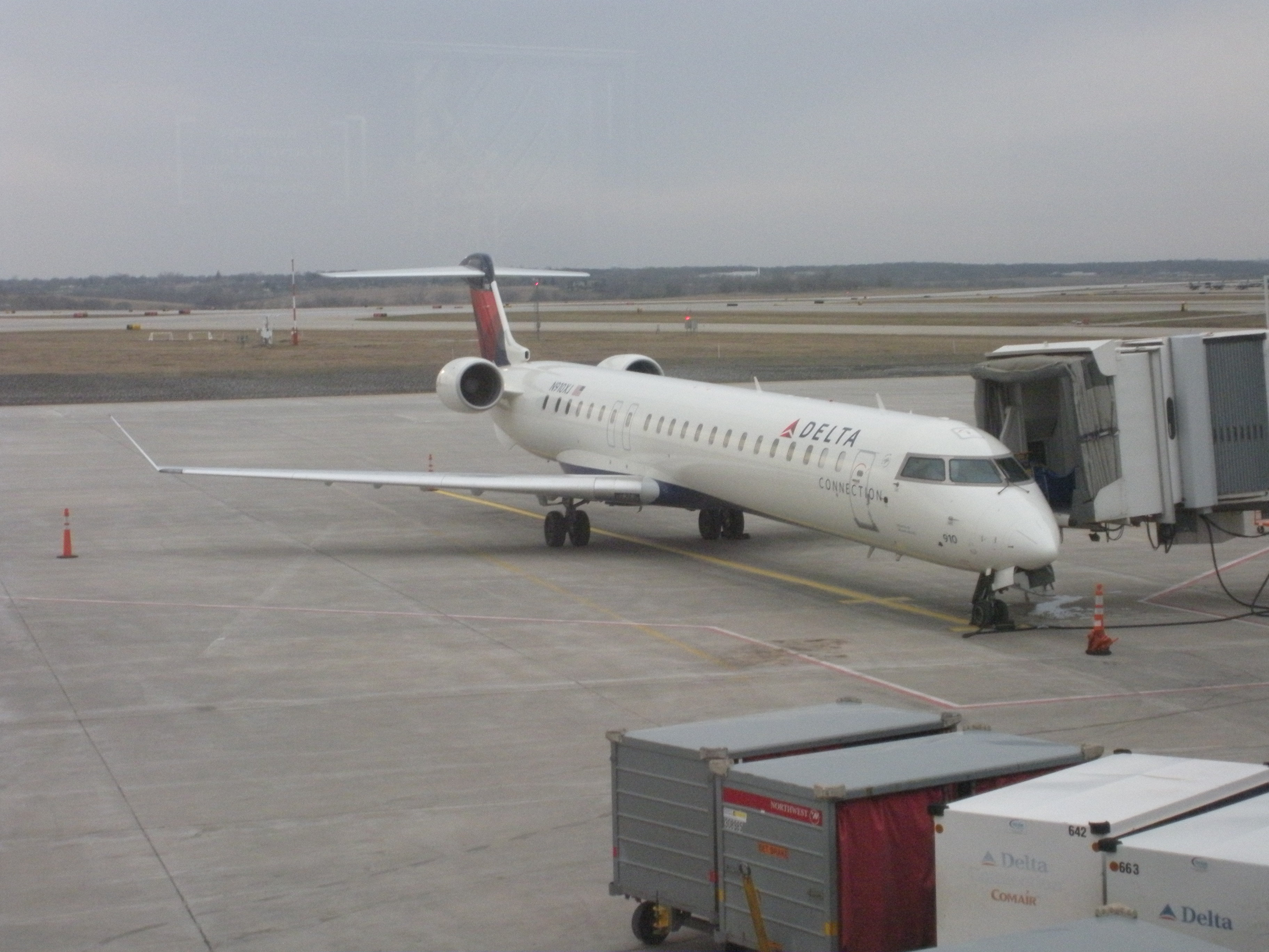 A delta Connection CRJ-900 parked at the gate at DSM